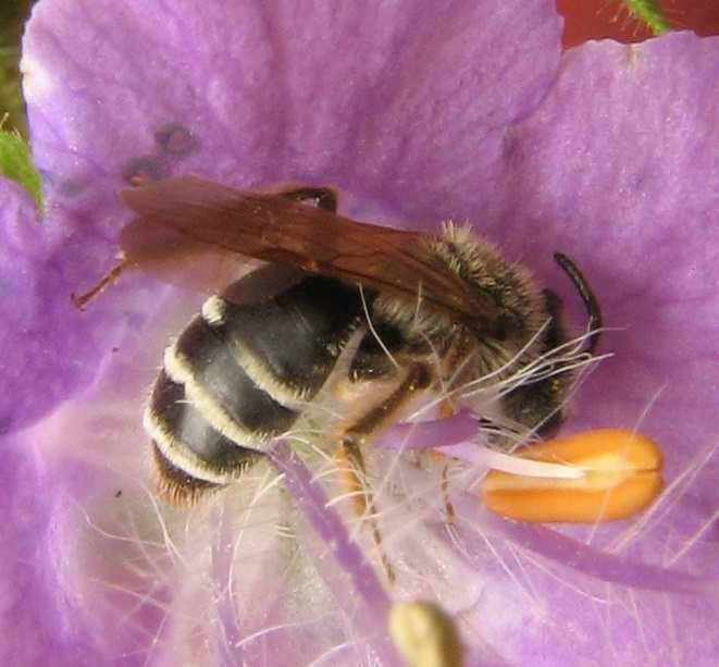 Andrena nasonii, female. New River Gorge Bridge, Fayette County, West Virginia, USA.